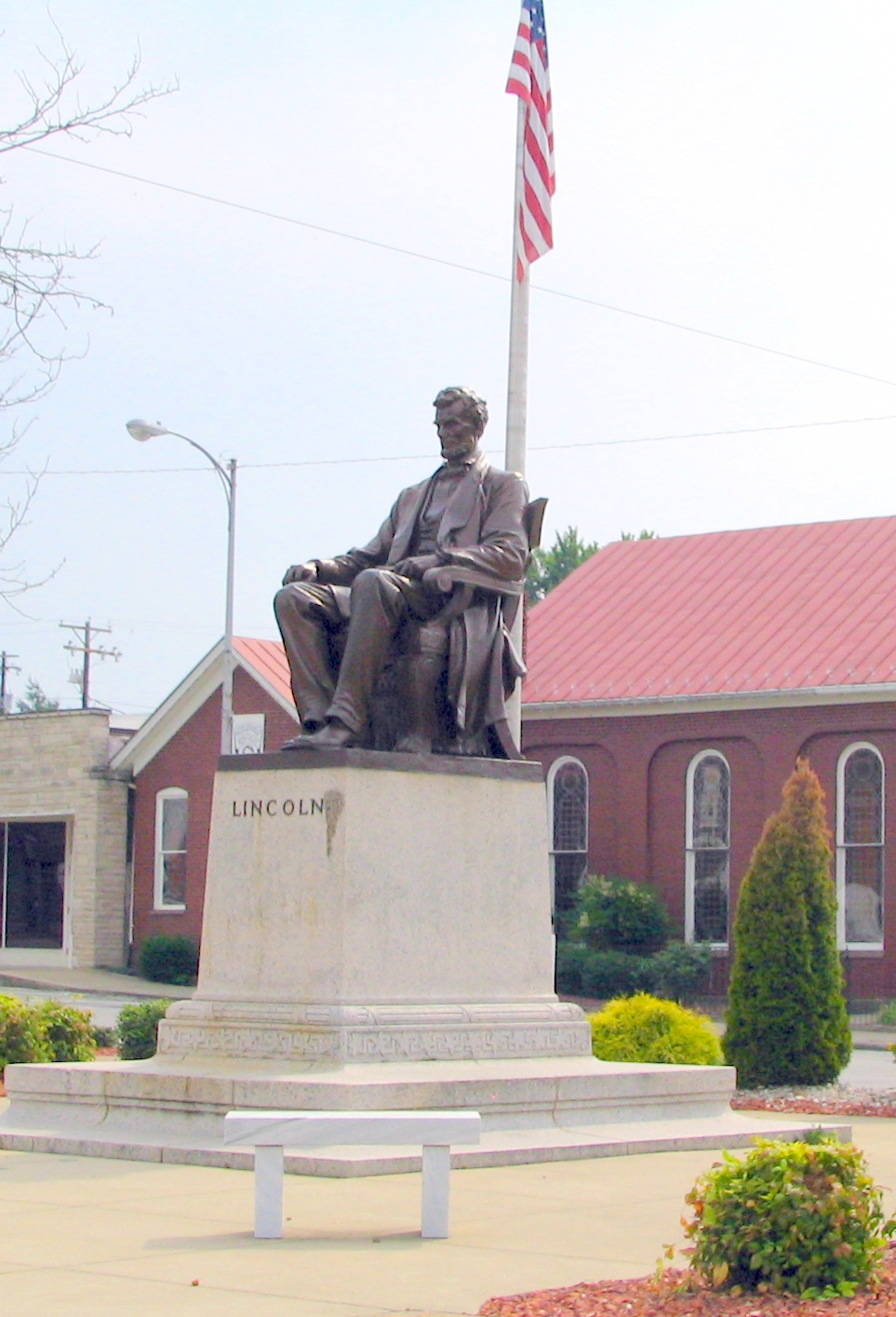 Statue of Abraham Lincoln in Hodgenville, Kentucky, USA